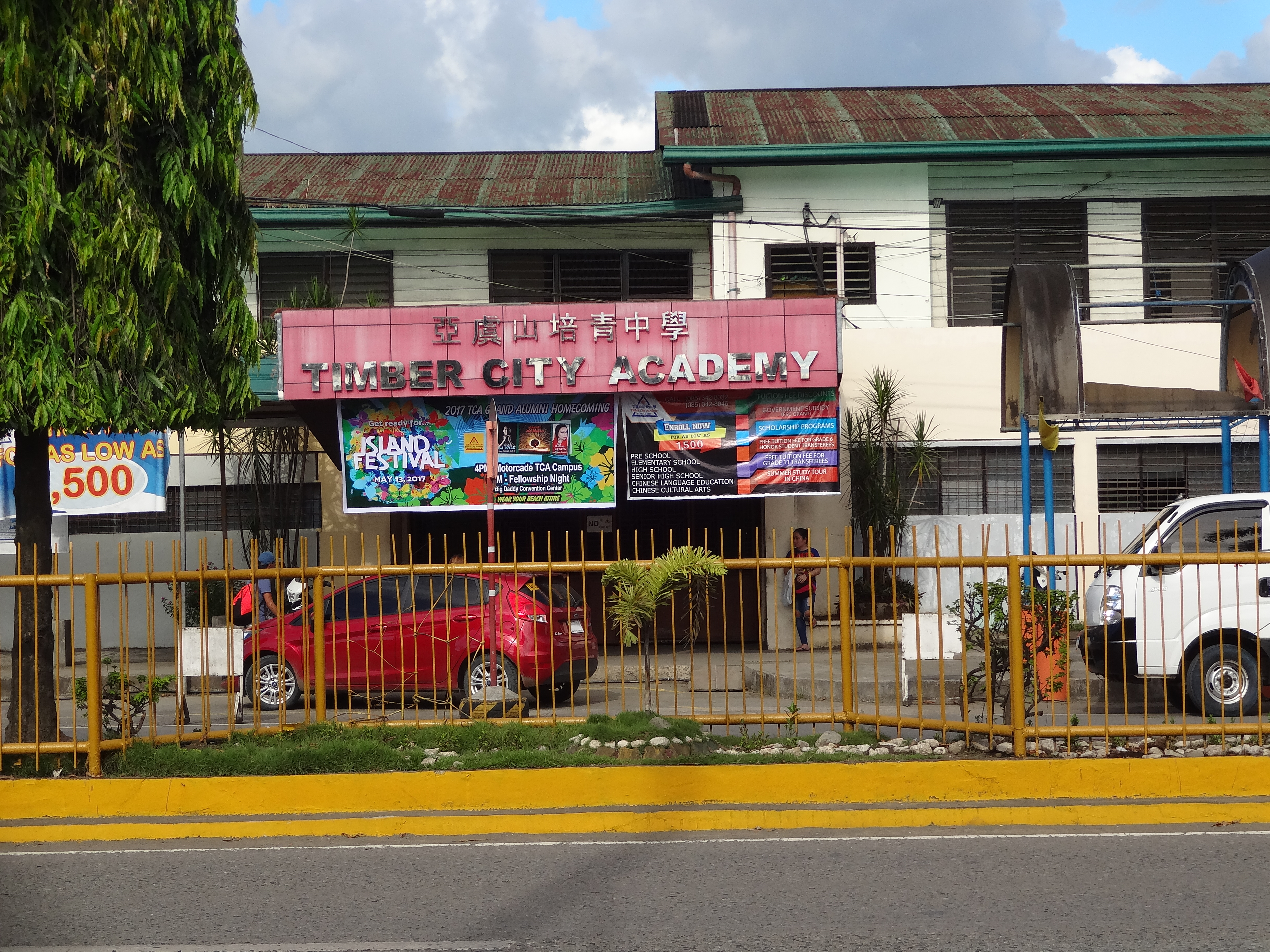 This is my own work. The Main entrance of the Timber City Academy, a Chinese School in Butuan City, near FSUU Campus.